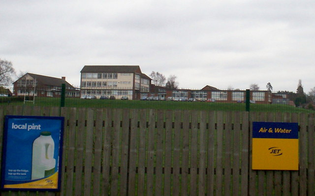 Portadown College Taken from the boundary of the Gilford Road filling station, across the school's rugby ground, showing the extent of the classrooms.